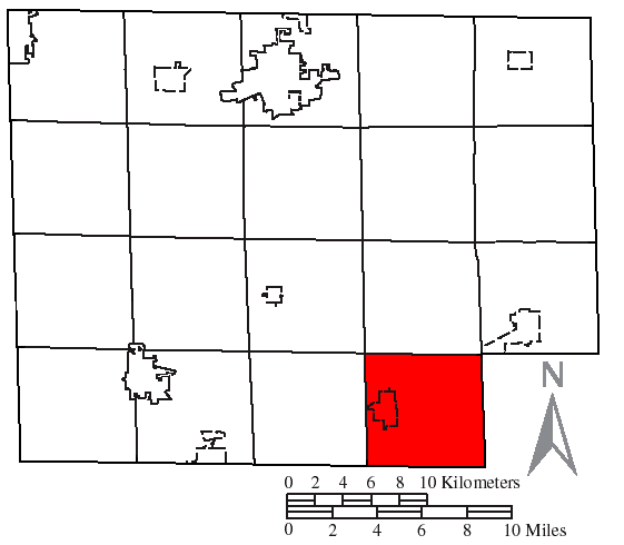 Made by the US Census and modified by myself